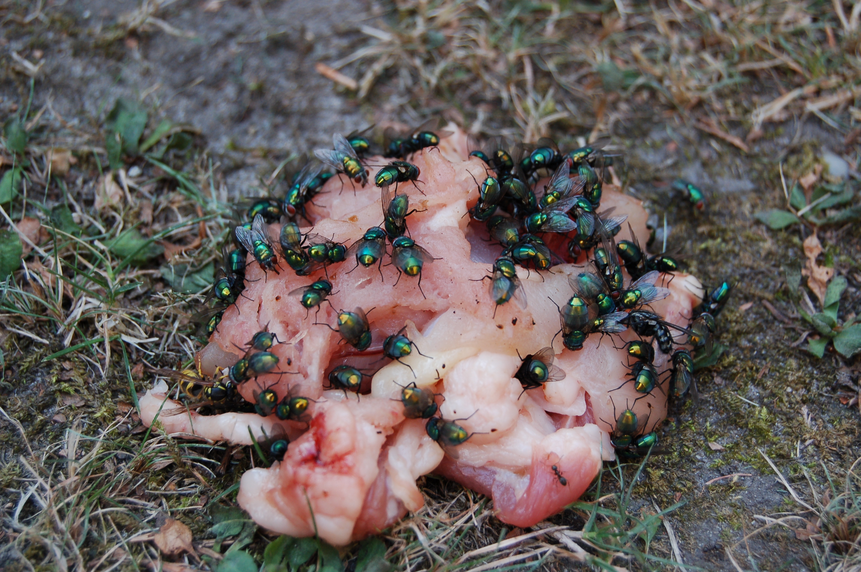 Blowflies